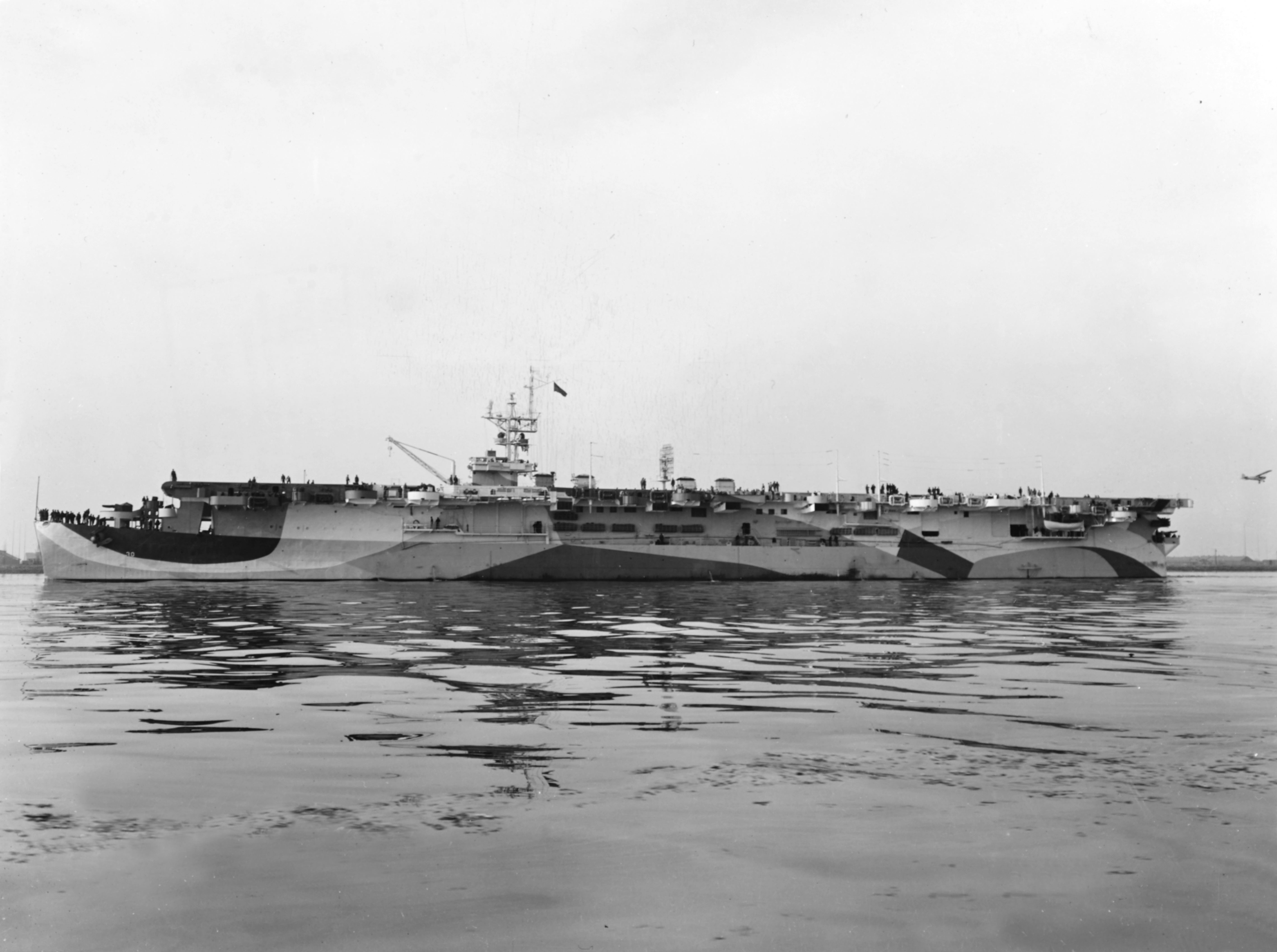 The U.S. Navy light aircraft carrier USS San Jacinto (CVL-30) off the Philadelphia Naval Shipyard, Pennsylvania (USA), on 17 January 1944. She is painted in camouflage Measure 33, Design 7a.